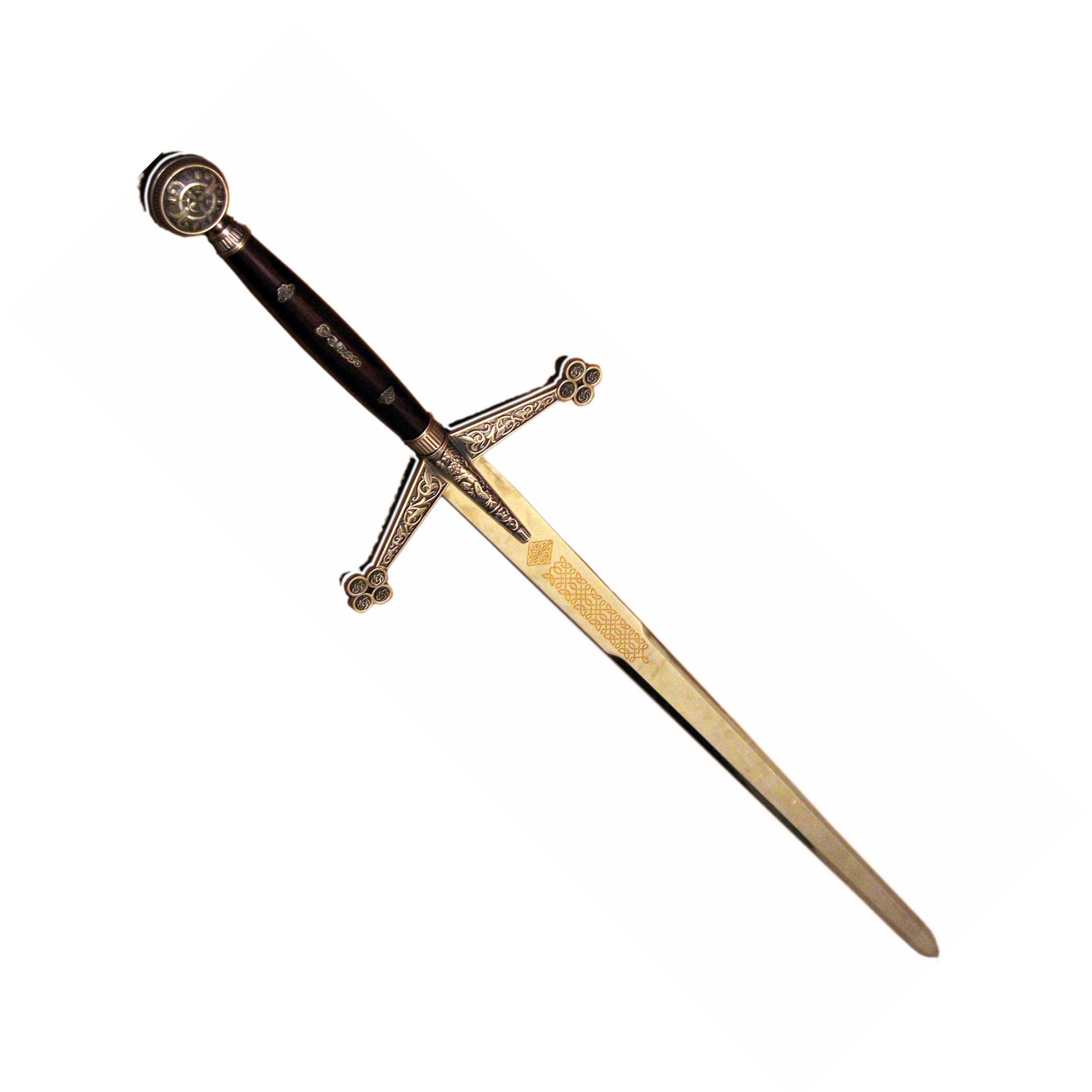 A replica of a claymore used in the movie "Highlander"